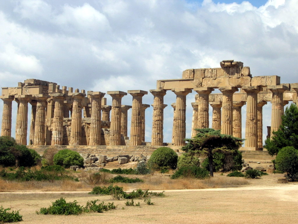 Temple E Selinunte, Sicilia.